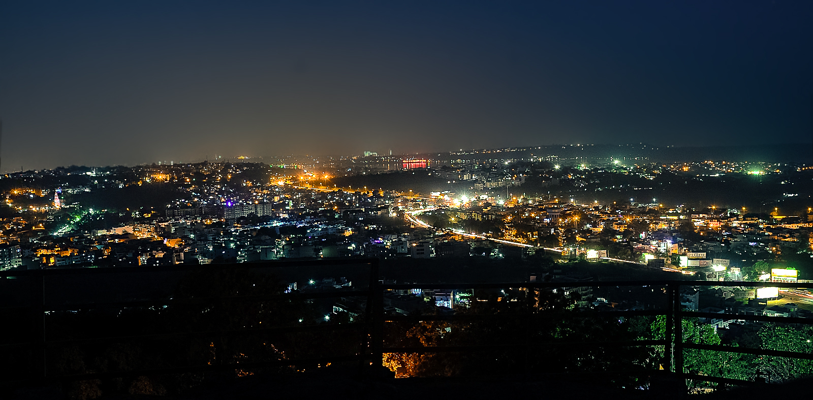 A pictursque overview of Bhopal city.